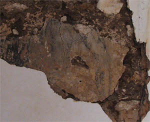 The interior of St Giles Church, Bielby, East Riding of Yorkshire, England, showing the uncovered medieval wall painting of St Christopher.